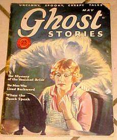 Cover of the pulp magazine Ghost Stories (May 1927, vol. 2, no. 5).